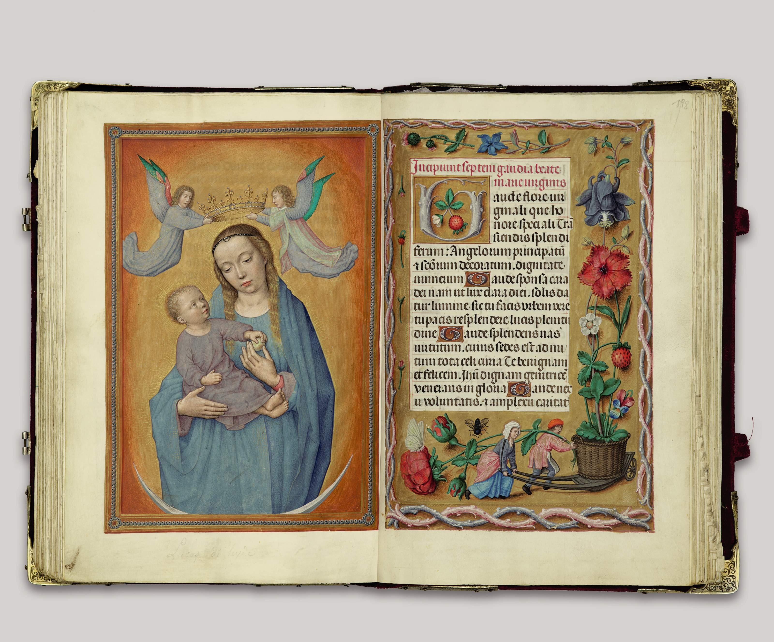 Info Christie's, LotFinder: entry 5766082 (sale 2819, lot 157) Rothschild Prayerbook Virgin and Child on a Crescent Moon. Accepted as by Gerard David, one of only a few miniatures attributed to him (c.f. Release Announcement. Christie's. Archived from the original on 14 January 2014.).